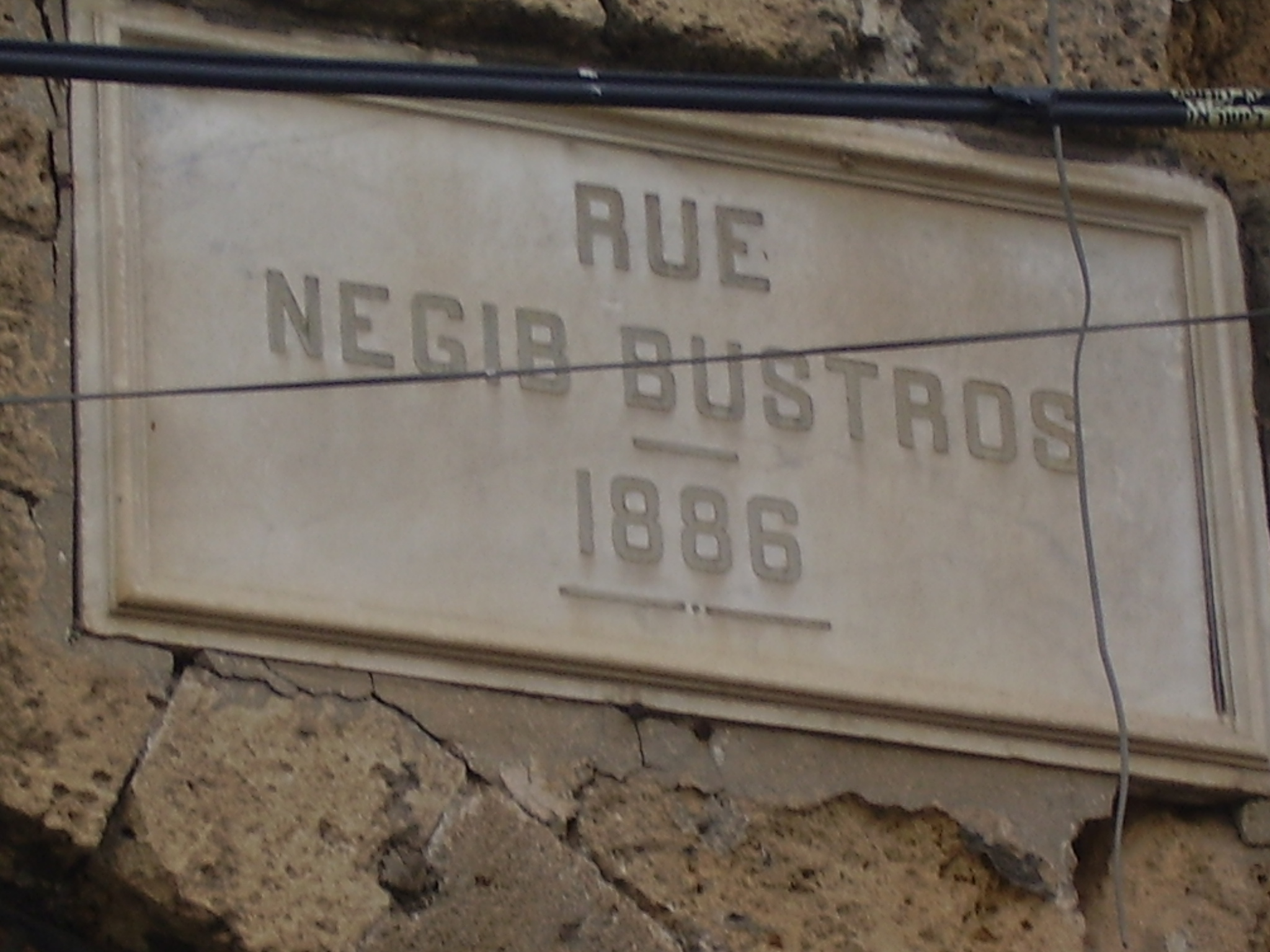 street plate- rue negib bustros, jaffa שלט רחוב -"נג'יב בוסטרוס" ברחוב רזיאל 11 ביפו